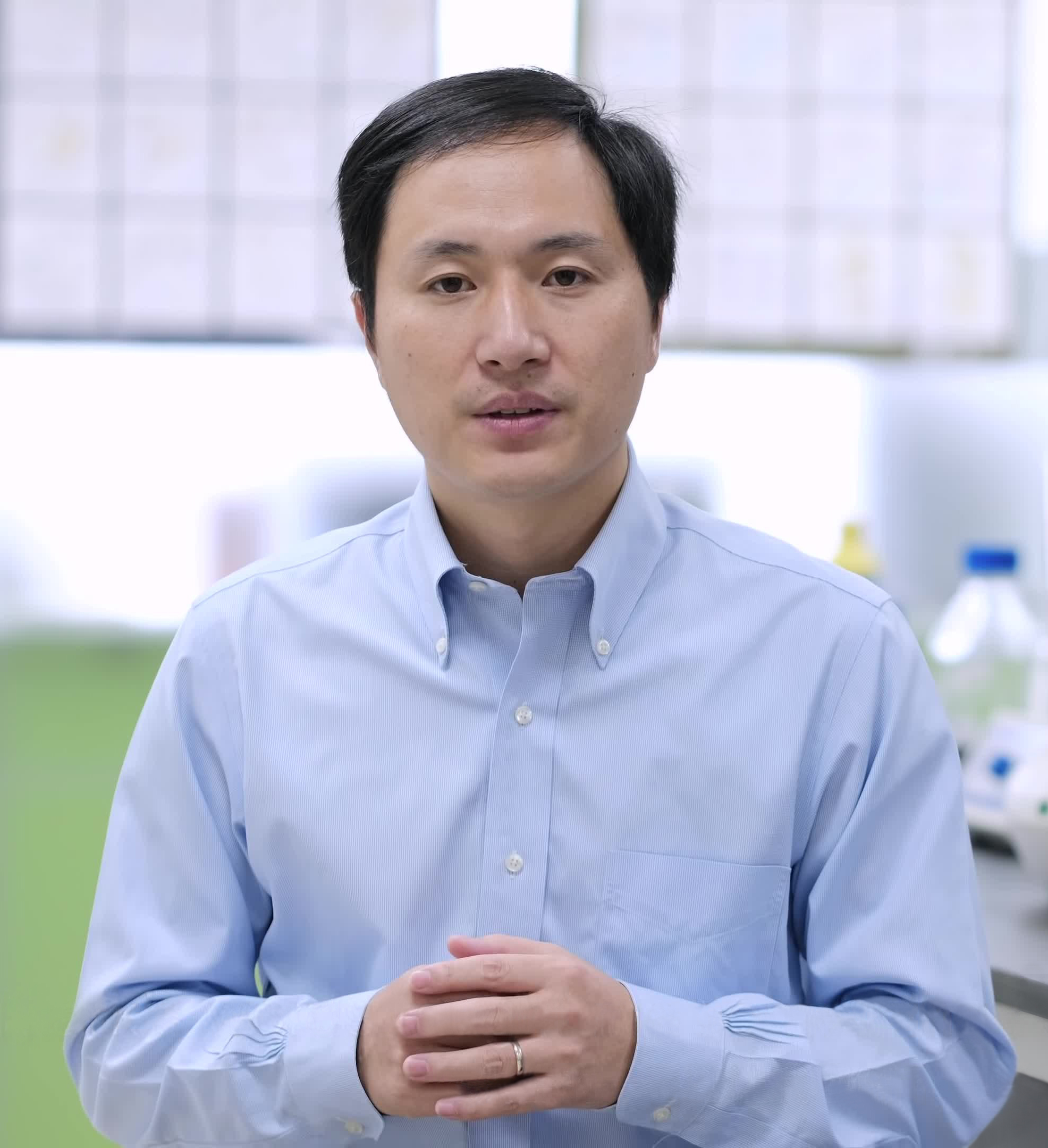 Chinese biomedical researcher Dr. Jiankui He